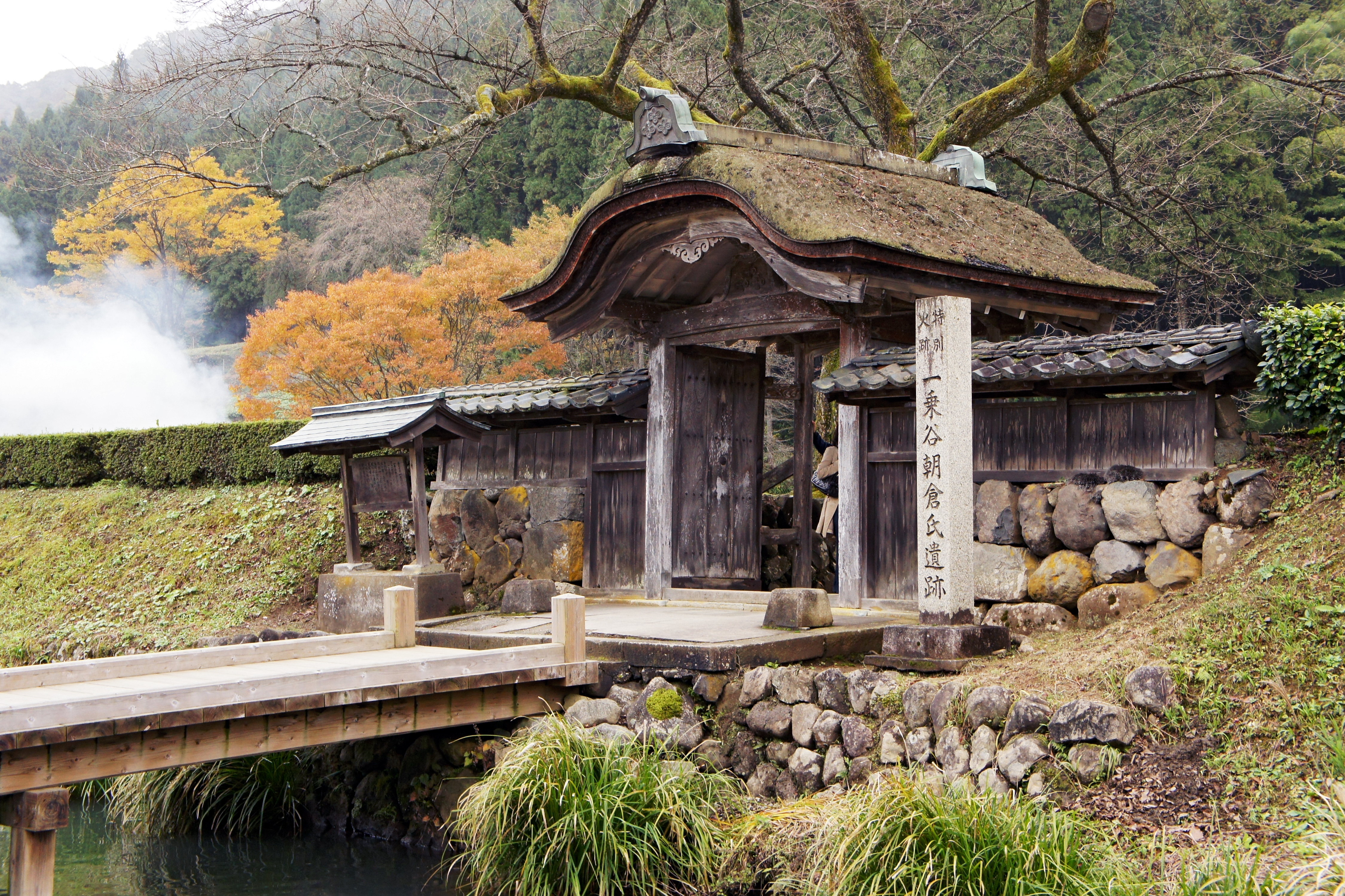 Asakura Yakata of Ichijōdani Asakura Family Historic Ruins in Fukui, Fukui prefecture, Japan.